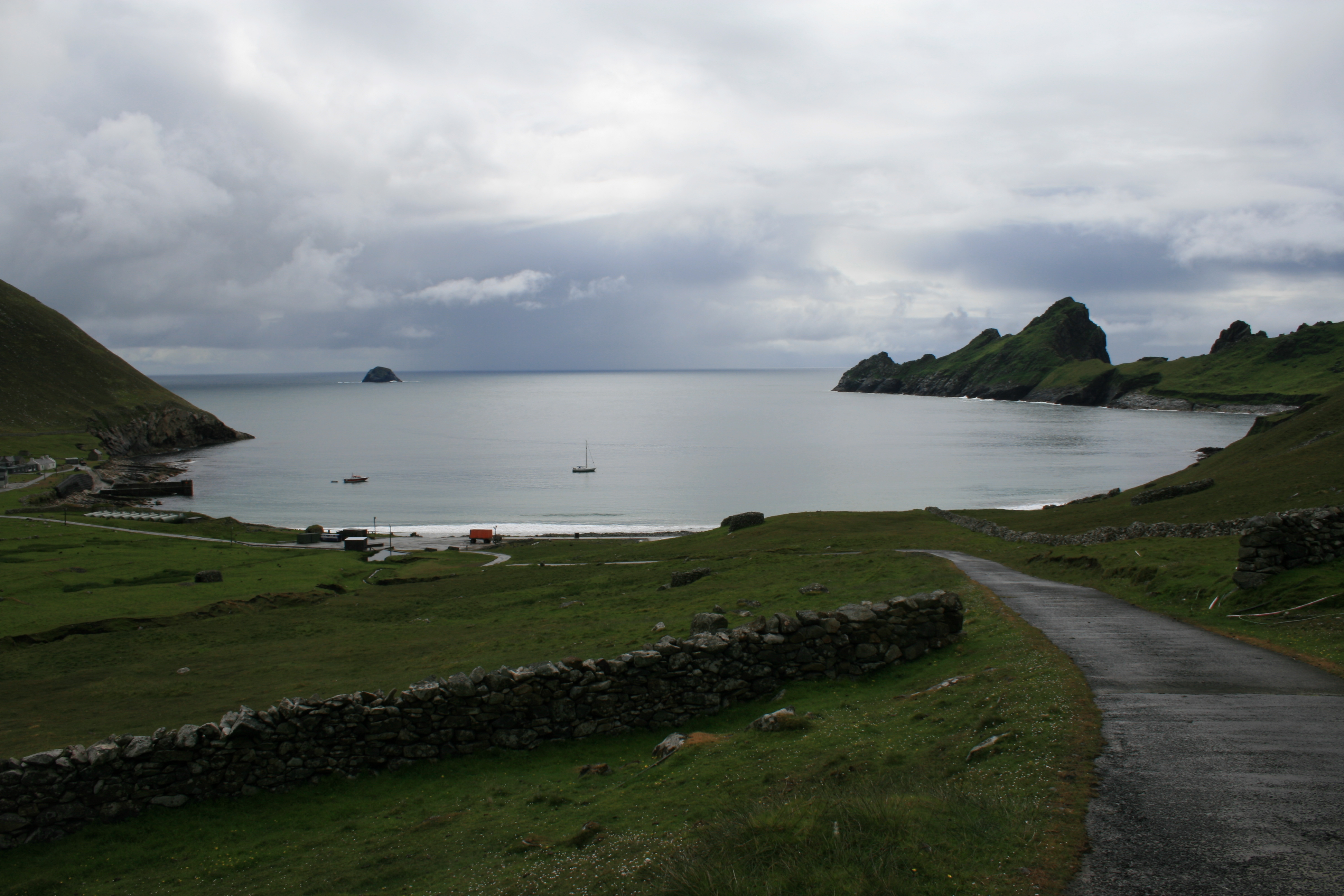 Village Bay, Dùn (right), Stac Levenish (left) and Loch Hiort from Hirta, St Kilda